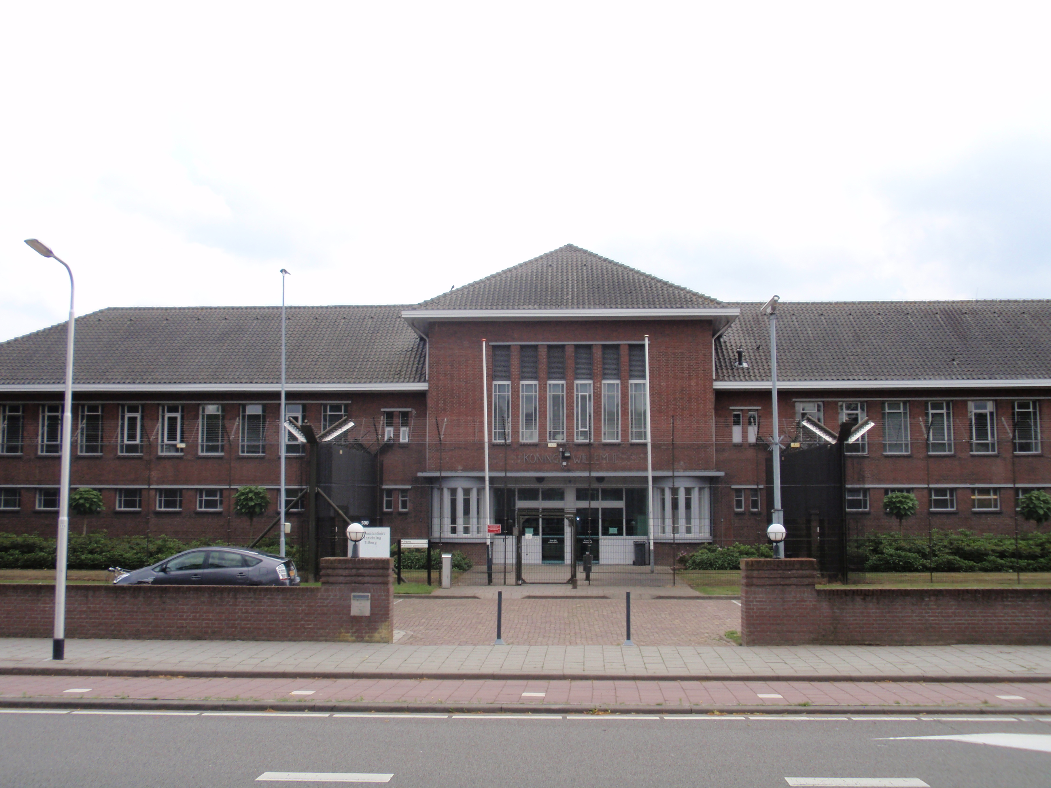 Penitentiary Tilburg, previously the Koning Willem II Barracks